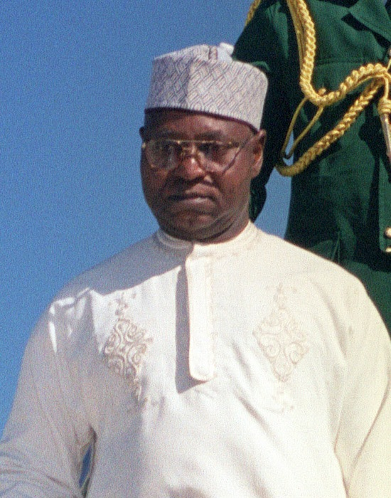 Nigerian President, Mr. Abubarek and his wife arrive at Andrews Air Force Base, Maryland.